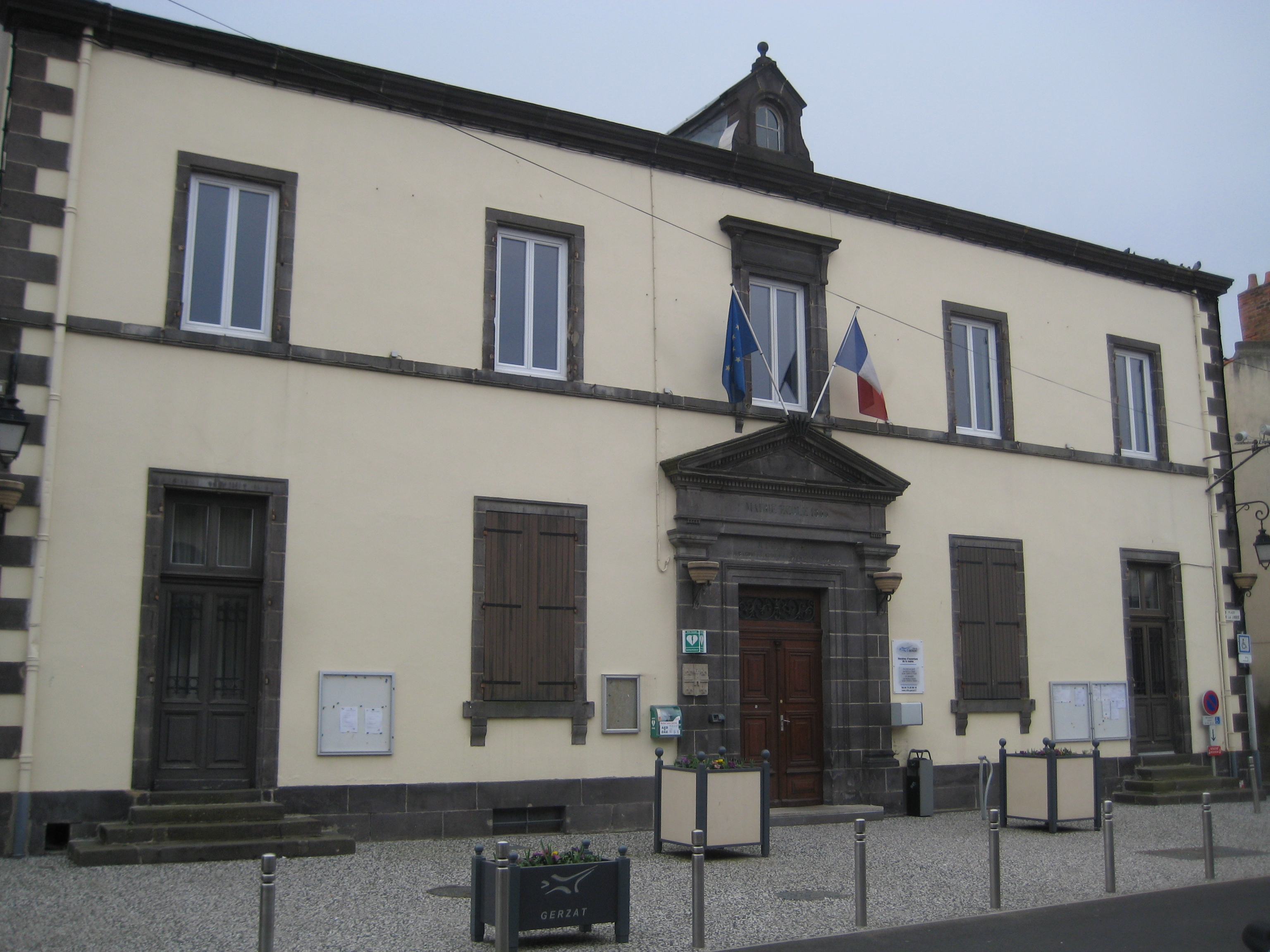 Town hall of Gerzat